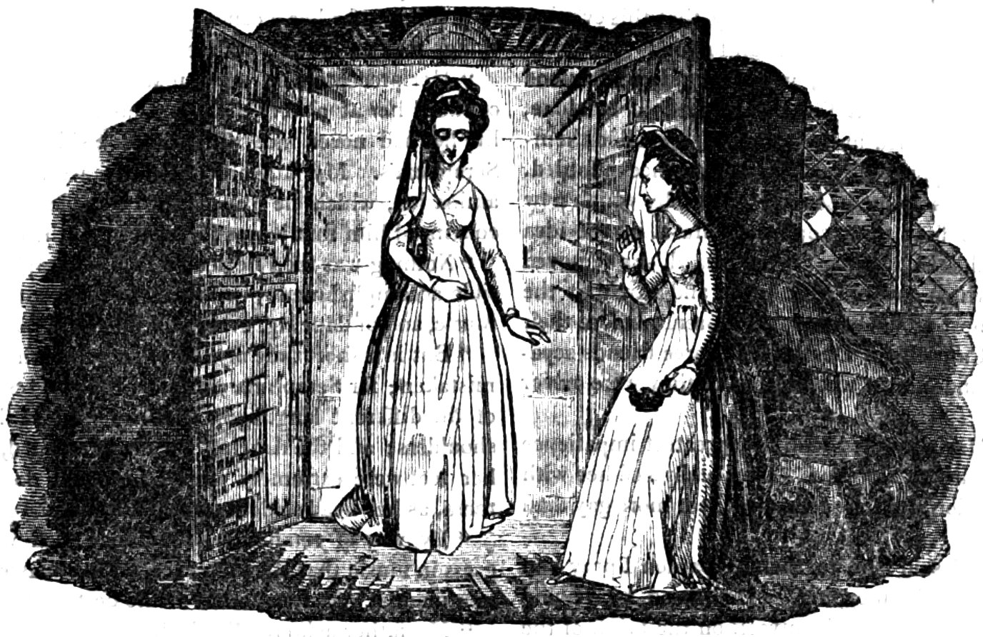 Illustration for "The Fated Hour" (taken from Tales of the Dead) from The Penny Story-Teller, London: Charles Penny, August 15, 1832, p. 17. Adjusted from Google books scan [p. 28] by uploader.